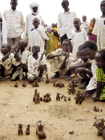 Original caption states, "Children in the refugee camps are being encouraged to confront their psychological scars. Above, clay figures depict an attack by Janjaweed." In Darfur, Sudan.